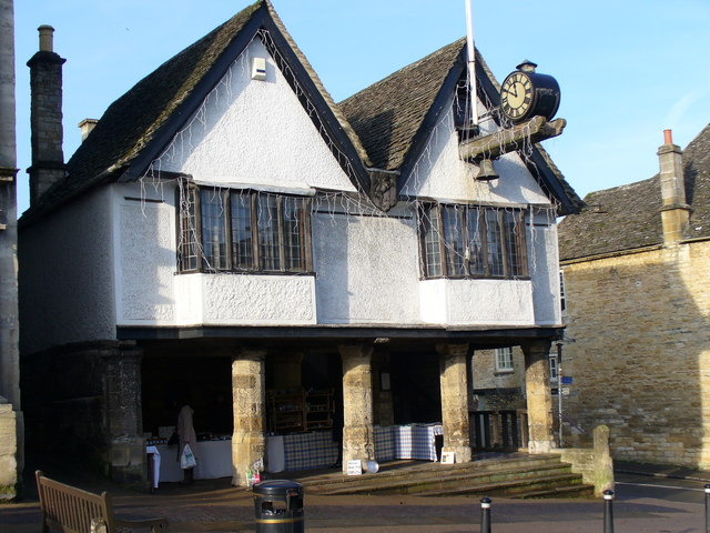 The Tolsey, High Street, Burford, Oxfordshire. Built in the 16th-century as a wool market, the building is now a local museum.